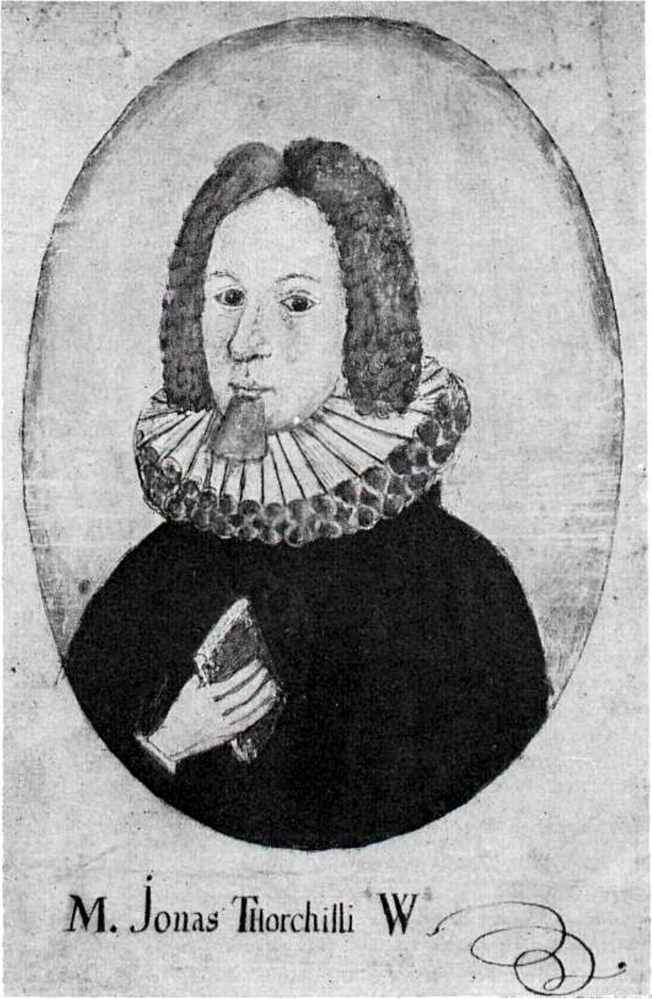 Jón Vídalín (1666-1720), bishop of Iceland 1698 – 1720.